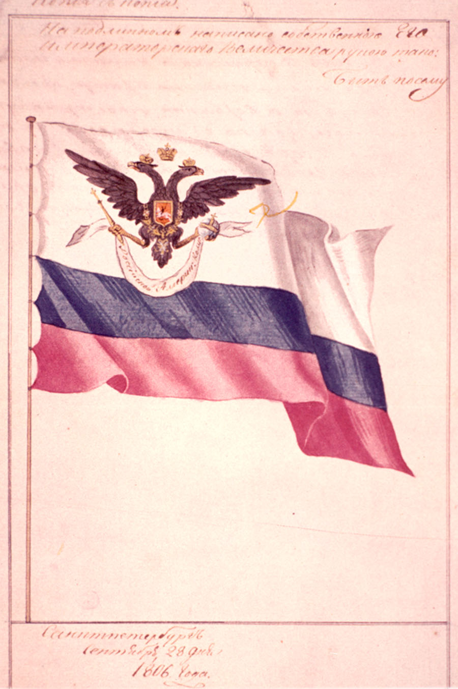 Original design of the Russian-American Company Flag, October 10, 1806, inscribed "so be it" and initialed by Emperor Alexander I